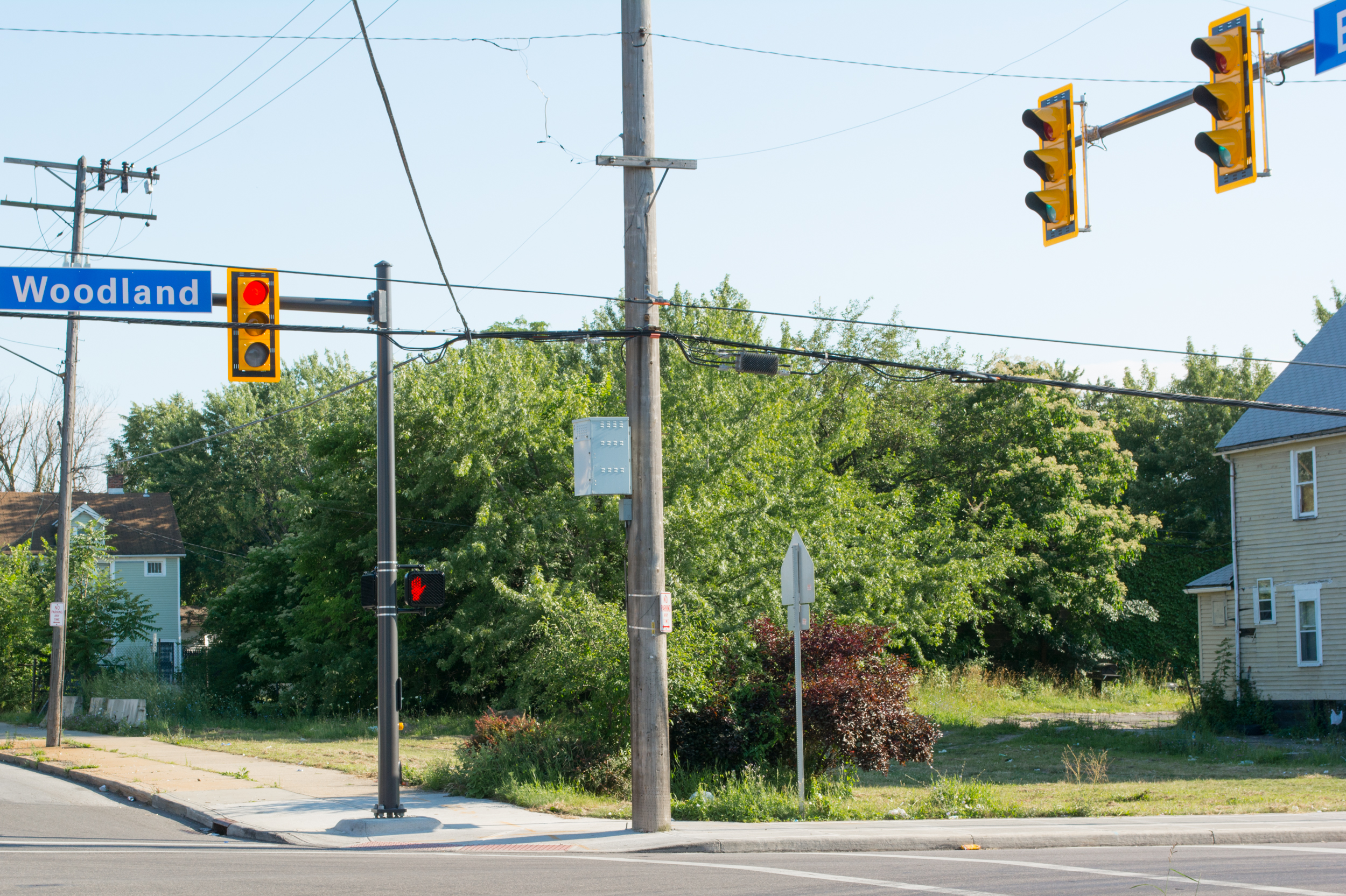 10902-10906 Woodland Avenue in Cleveland, Ohio, in the United States. This empty lot is actually two narrow lots, 10902 to the right (next to the house; the house actually encroaches a few feet onto 10902) and 10906 (on the corner). 10902 Woodland is the former site of the Porrello barber shop where Joseph "Big Joe" Lonardo (boss of the Cleveland crime family from 1920 to 1927) and his brother, John Lonardo, were assassinated by gunmen on October 13, 1927. On June 11, 1929, Joseph Porrello's caporegime, Salvatore "Black Sam" Todaro, was standing outside 10902 Woodland when gunmen assassinated him. On July 26, 1930, Vincenzo (aka Vincente) "James" Porrello was assassinated inside the I&A Grocery at 10906 Woodland Avenue.